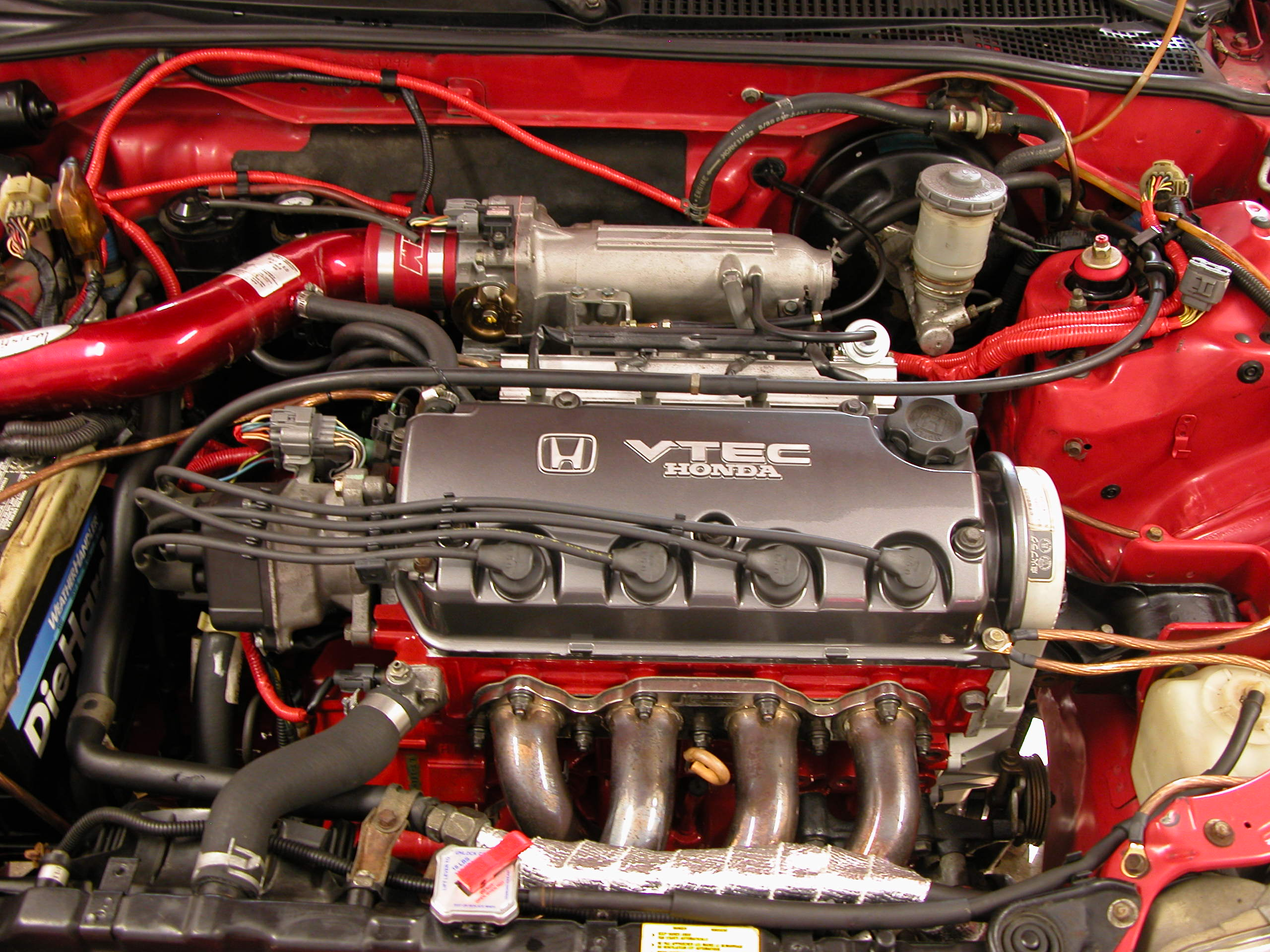 JDM D15B Vtec Swap into a USDM 1988 CRX DX